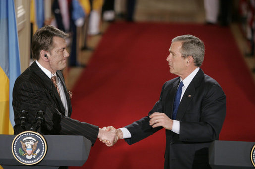 Presidents Viktor Yushchenko of the Ukraine and George W. Bush of the United States after a press availability, White House.